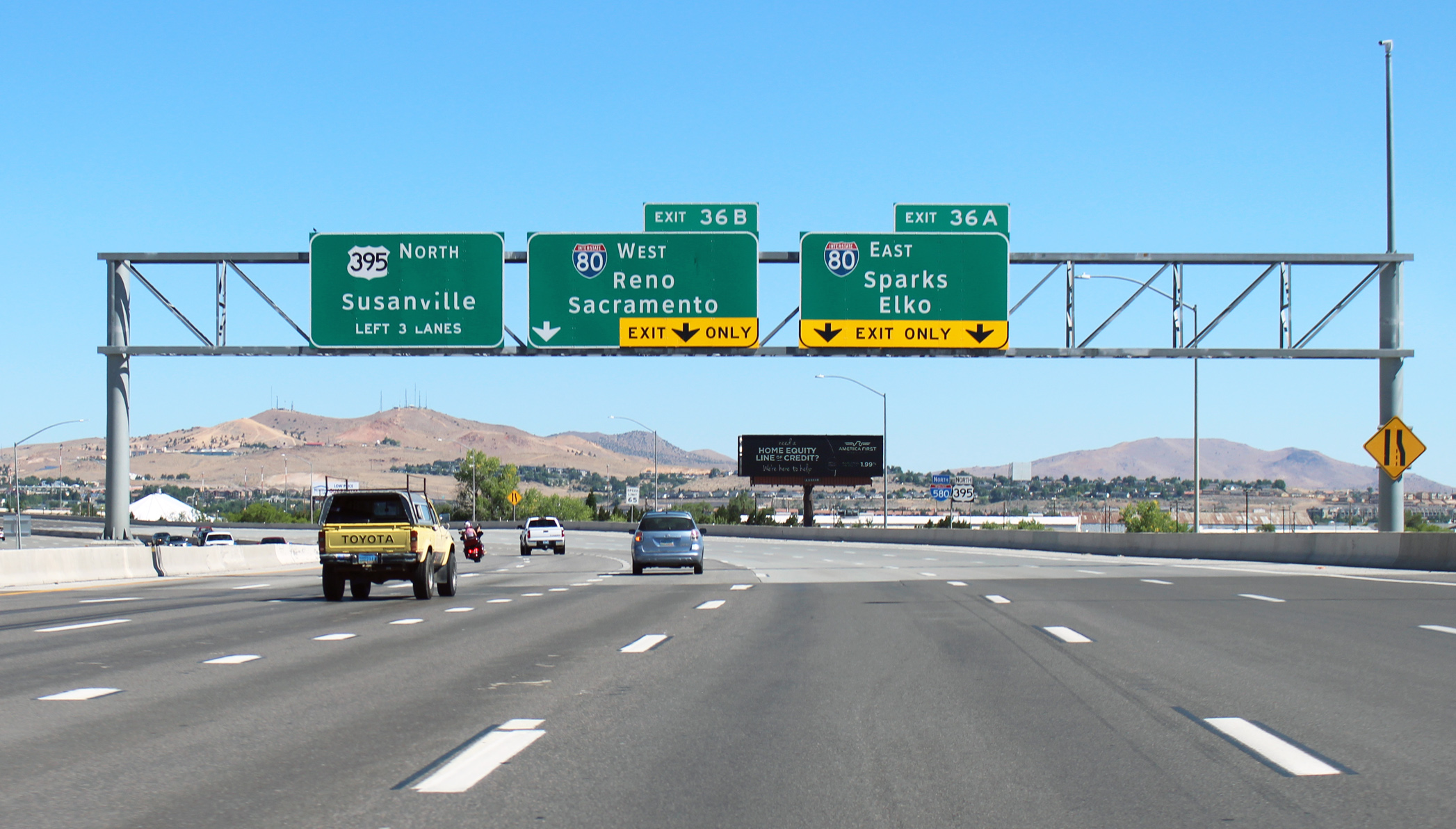 The northern end of Interstate 580 in Nevada, as seen by northbound traffic approaching the interchange with Interstate 80 (from which the freeway continues northbound carrying only U.S. Route 395). Photographed by user Coolcaesar on July 5, 2020.